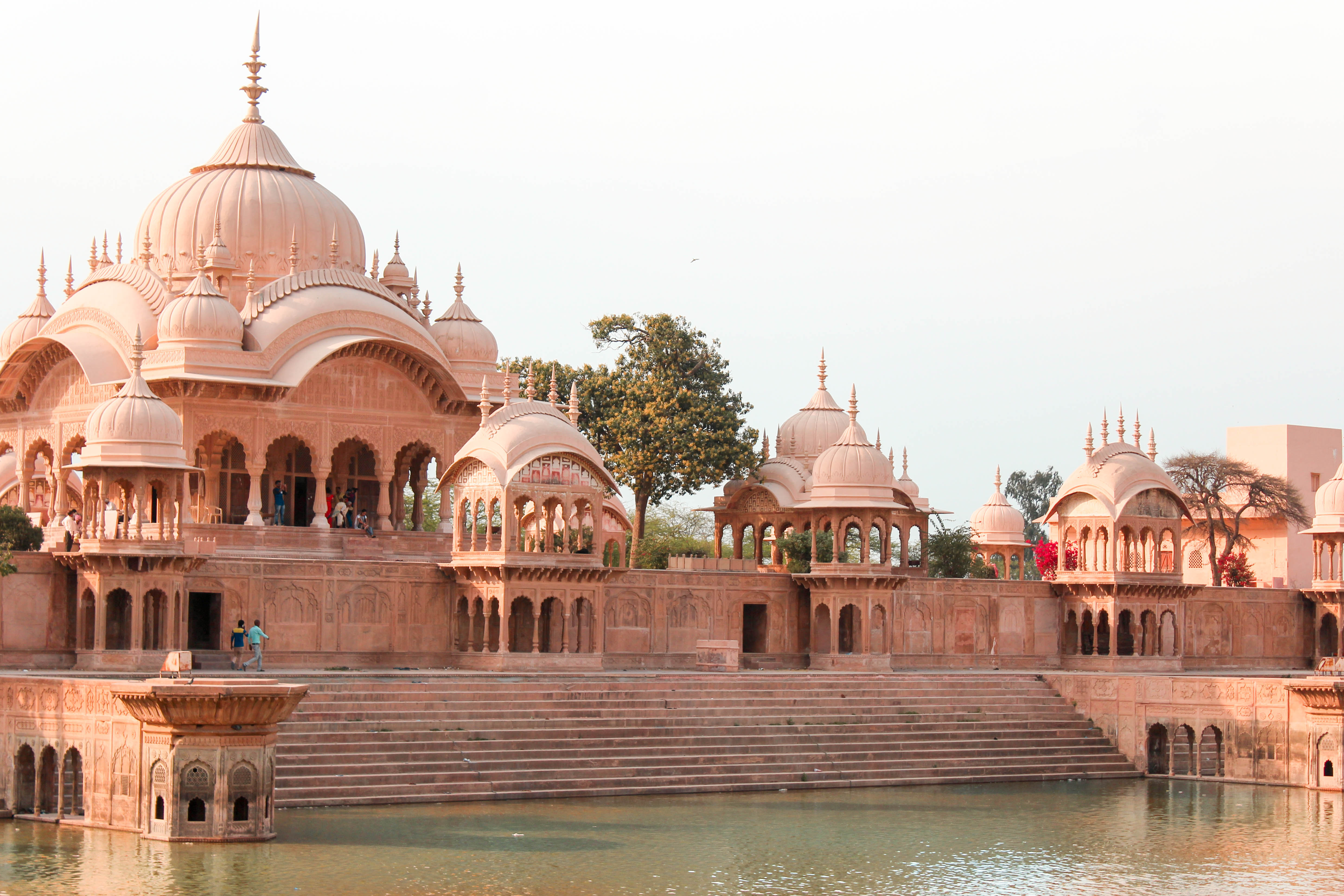 Chhatris of Kusum Sarovar